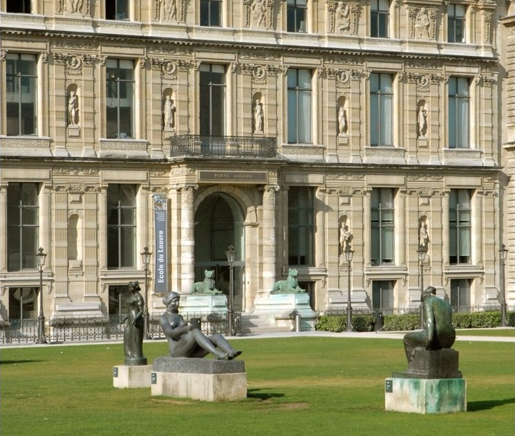 École du Louvre